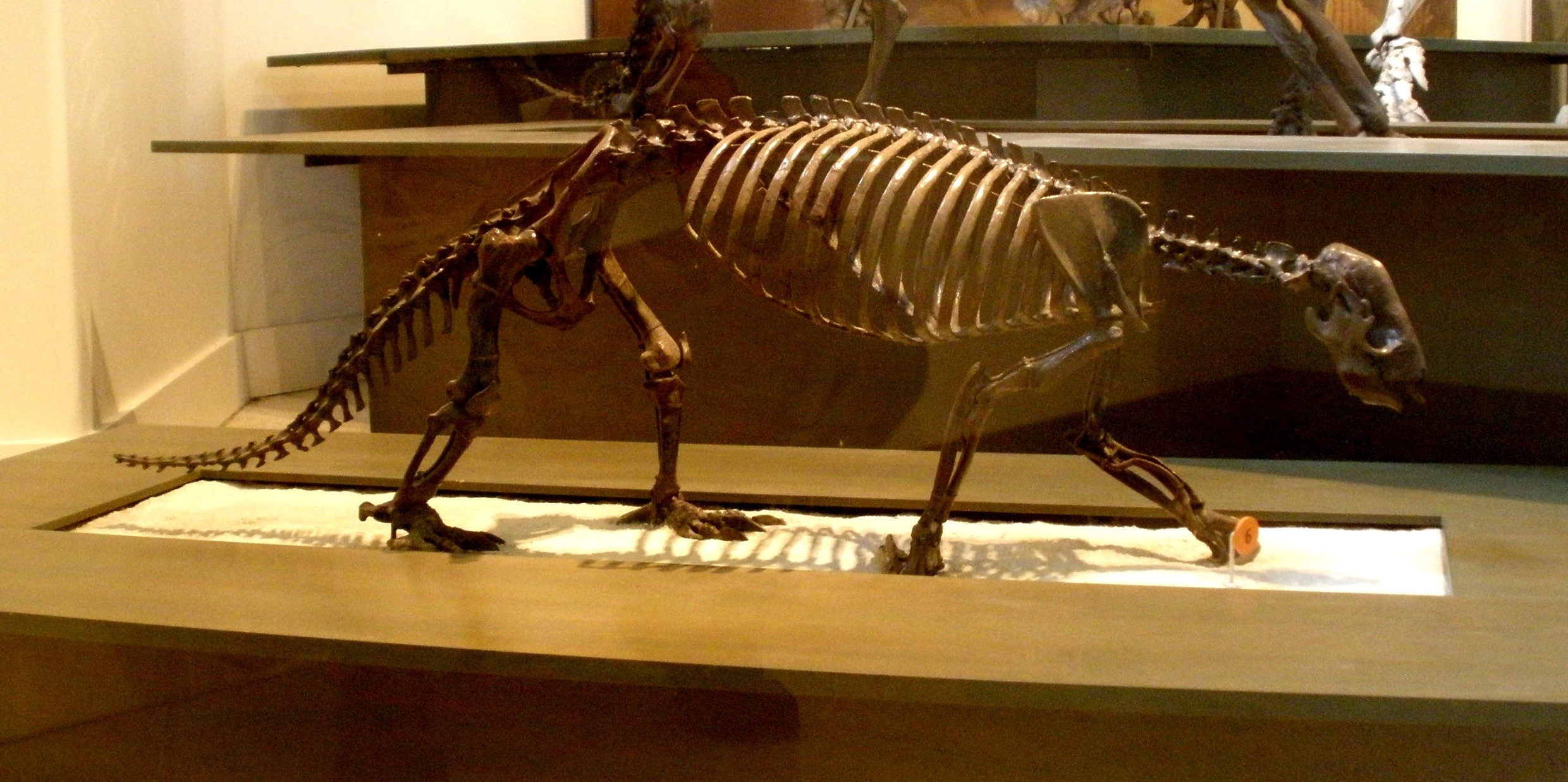 Skeleton of Hapalops ruetimeyeri, a fossil sloth